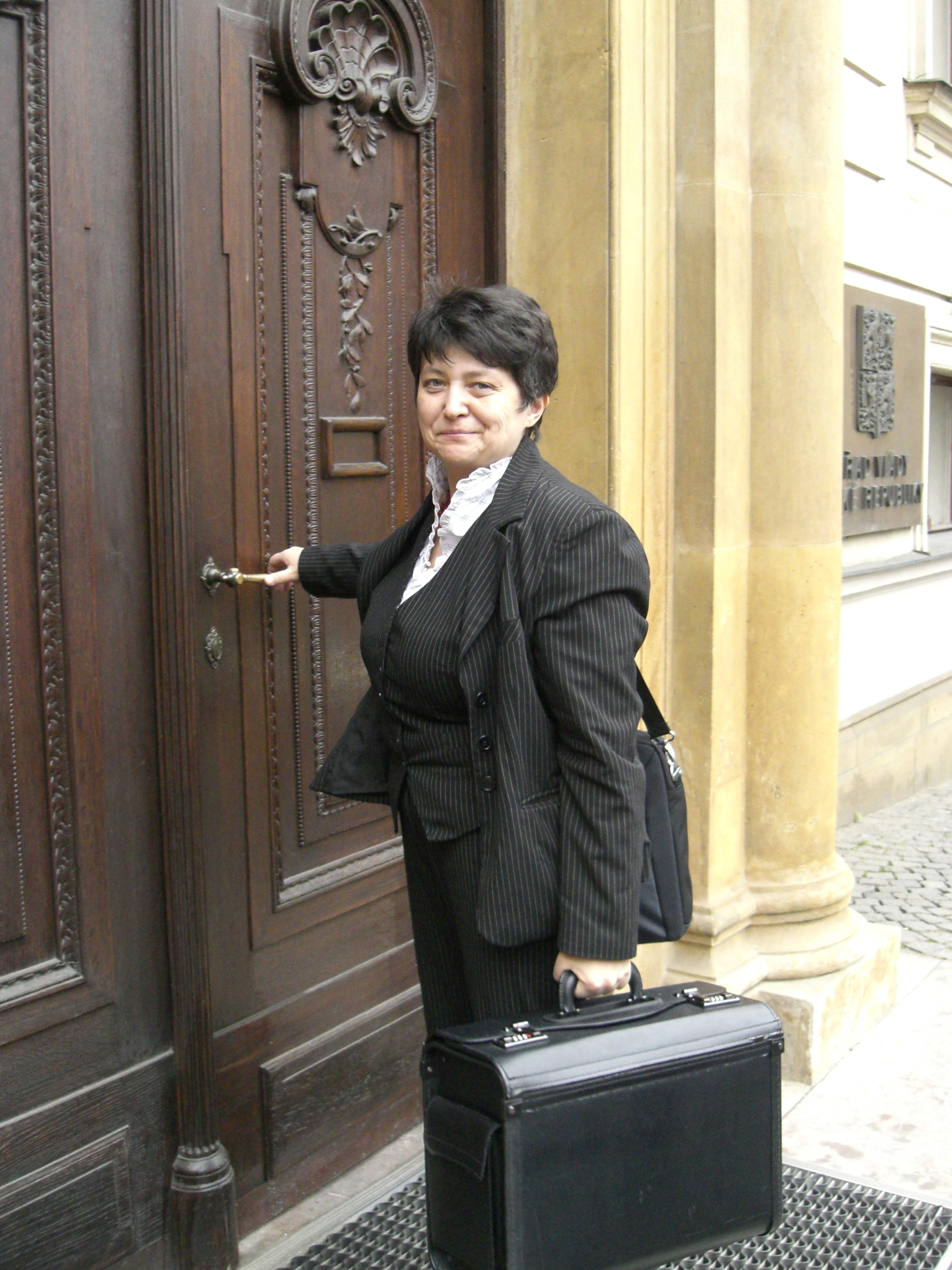 Minister Džamila Stehlíková of the czech goverment before session, Czech Republic.